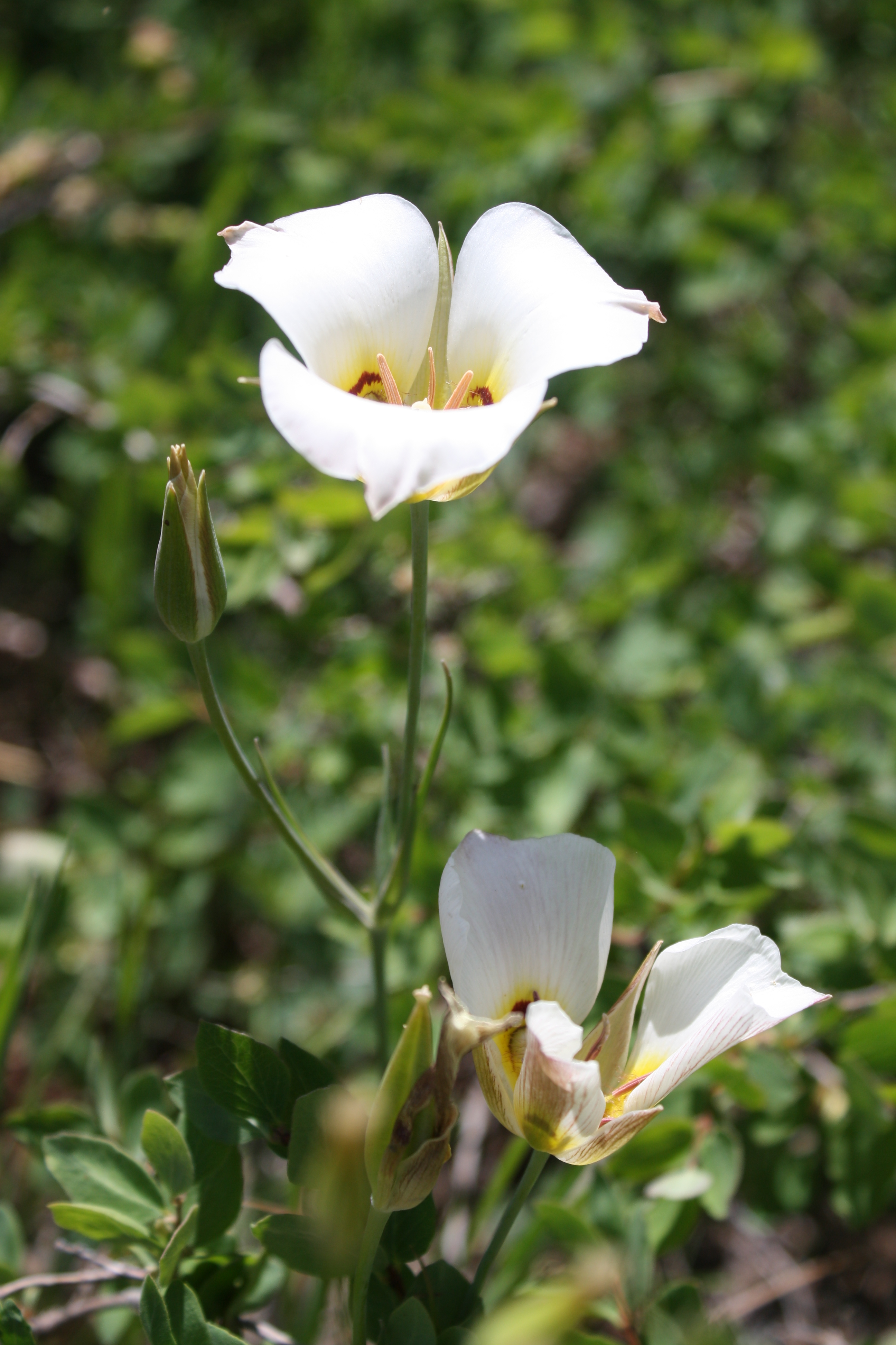 A Sego Lily (Calochortus nuttallii) plant found near Kolob Canyons by Zion National Park.